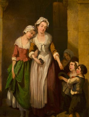 Giving Alms to Beggar Children, oil on canvas painting in the manner of Francis Wheatley, 36.5 x 28.75in (93 x 73cm)